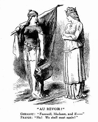 Germany: "Farewell, Madame, and if - " France: "Ha! we shall meet again!"